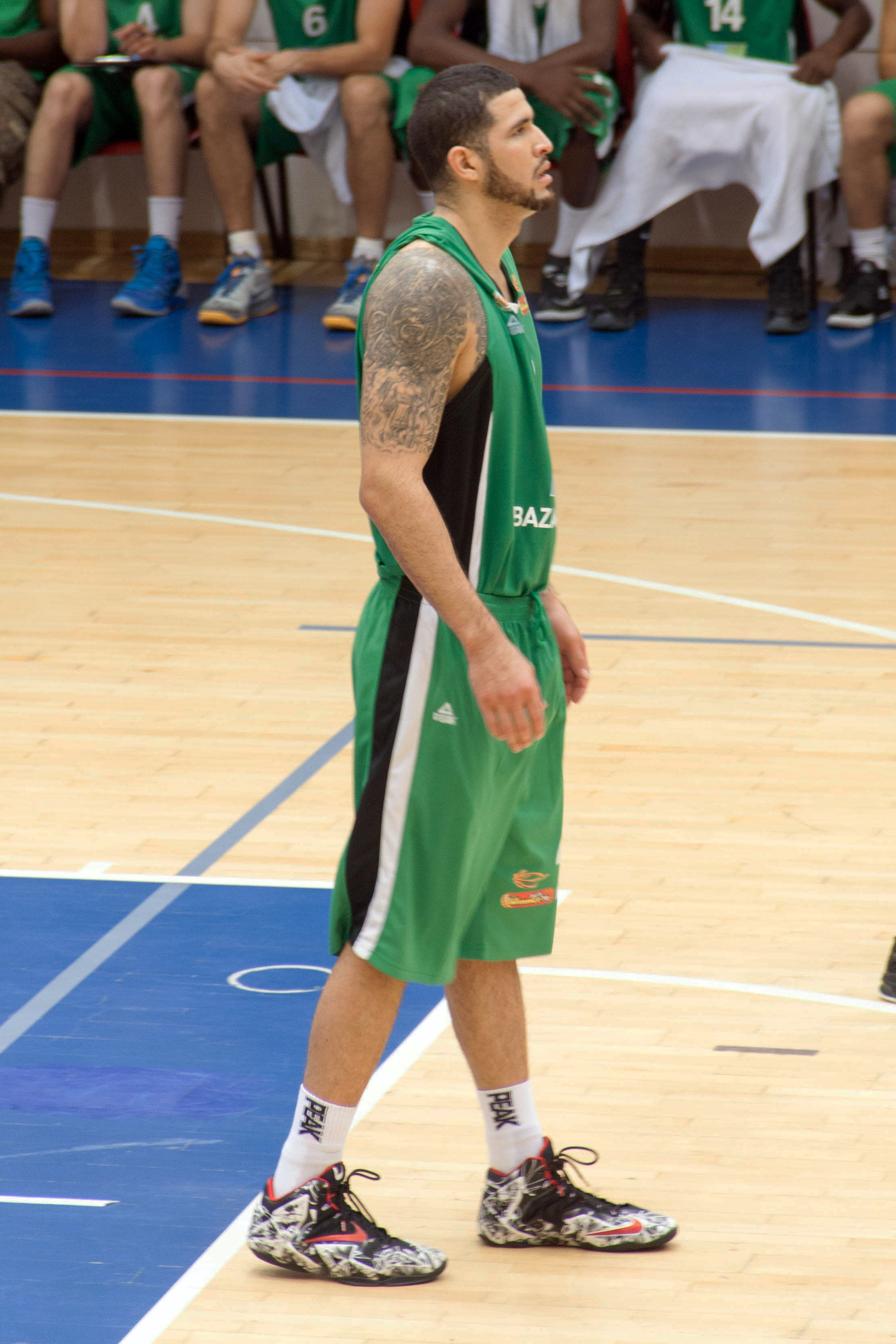 Hector Hernandez